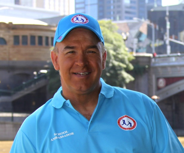 Mike Young in USYCA apparel.